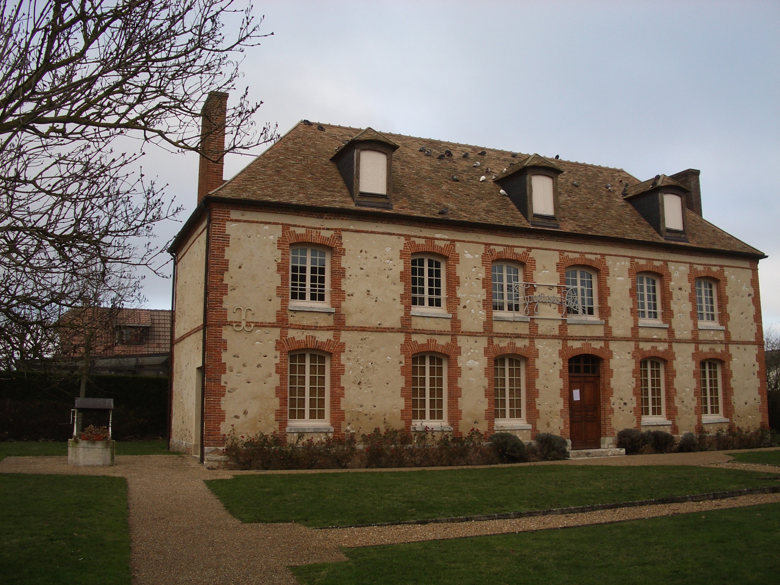 Boisset-les-Prévanches (Eure) city hall